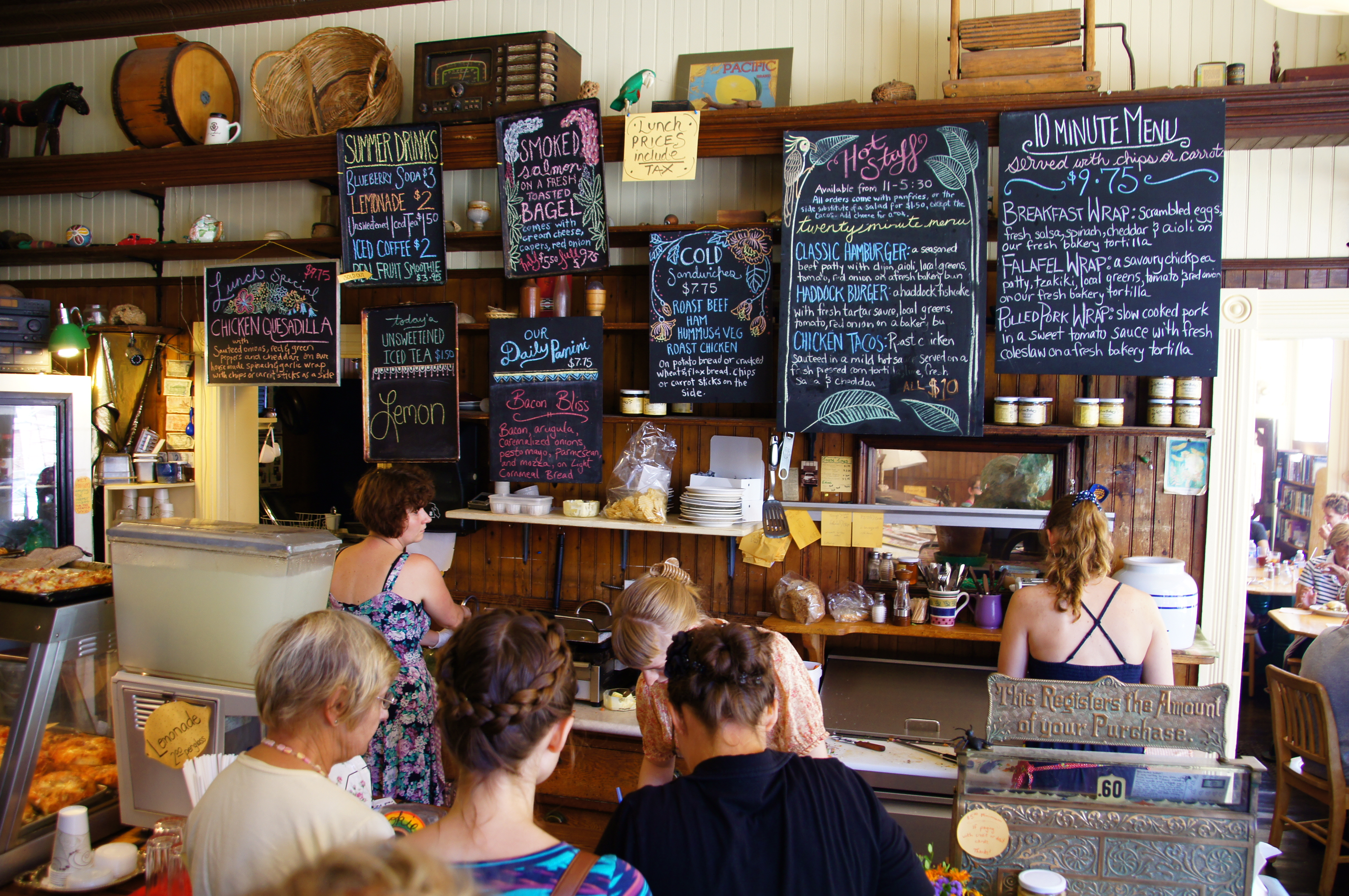 Stepping inside LaHave Bakery with its the old fashioned display cases and furnishings and homemade menu is a bit like stepping back in time.